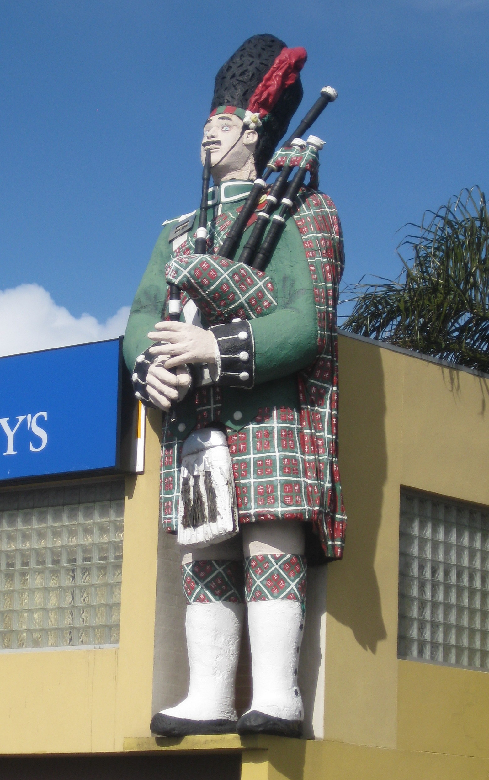 A picture of the Big Scotsman, colloquially known as "Scotty", found on "Scotty's Corner" in Medindie, Adelaide, South Australia.